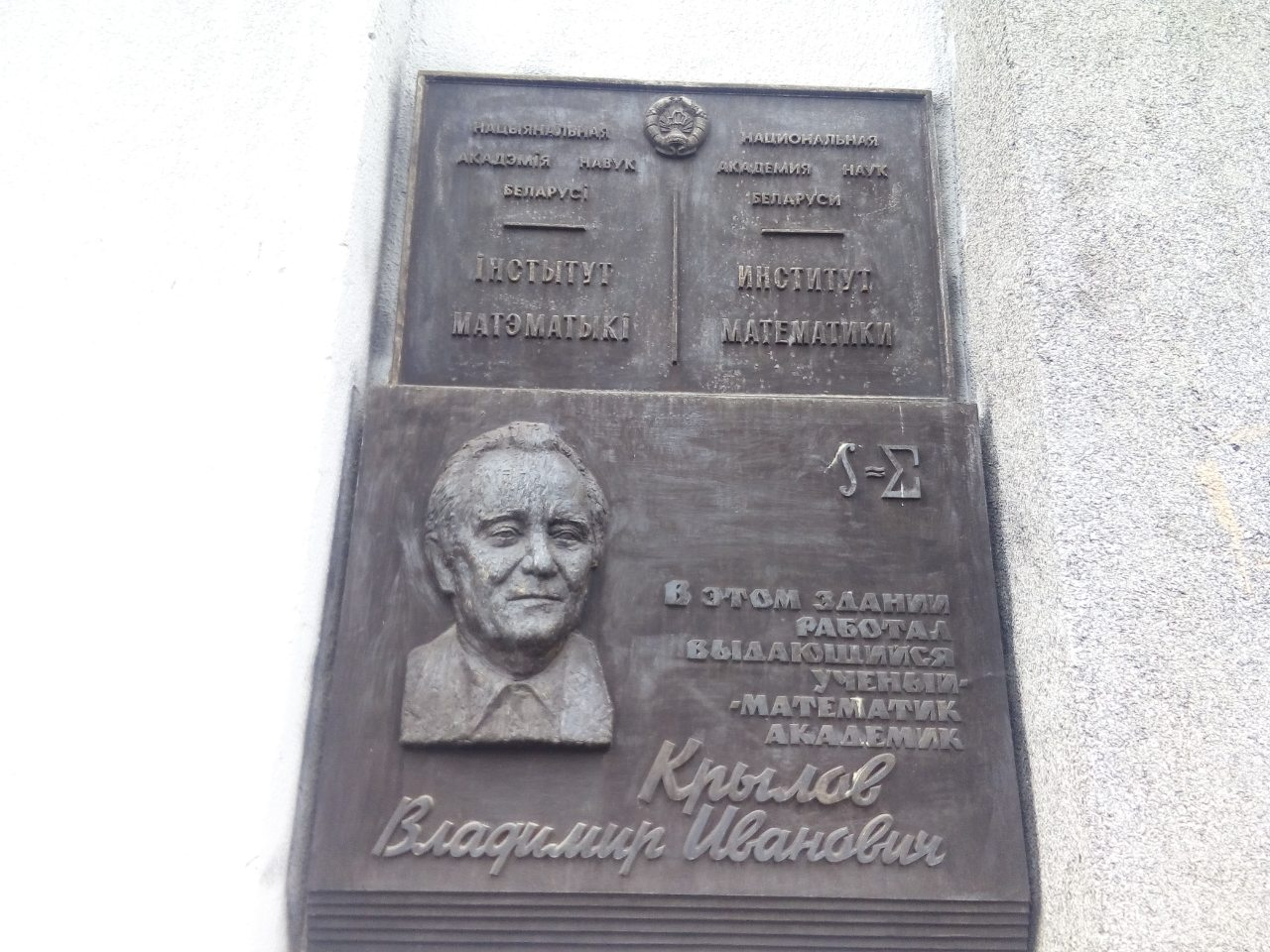 Plaque on the Institute of Mathematics of the National Academy of Sciences of Belarus (11 Surhanava Street, Minsk; 20th of April, 2019)